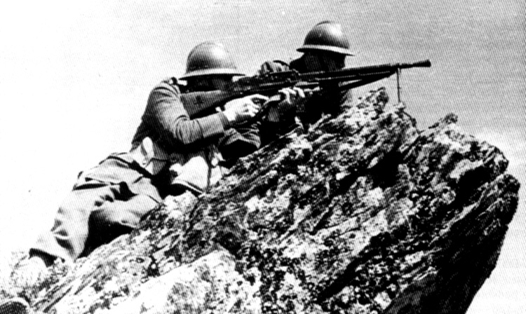 Soldiers of the Polish Independent Highlander Brigade during the Battle of Narvik